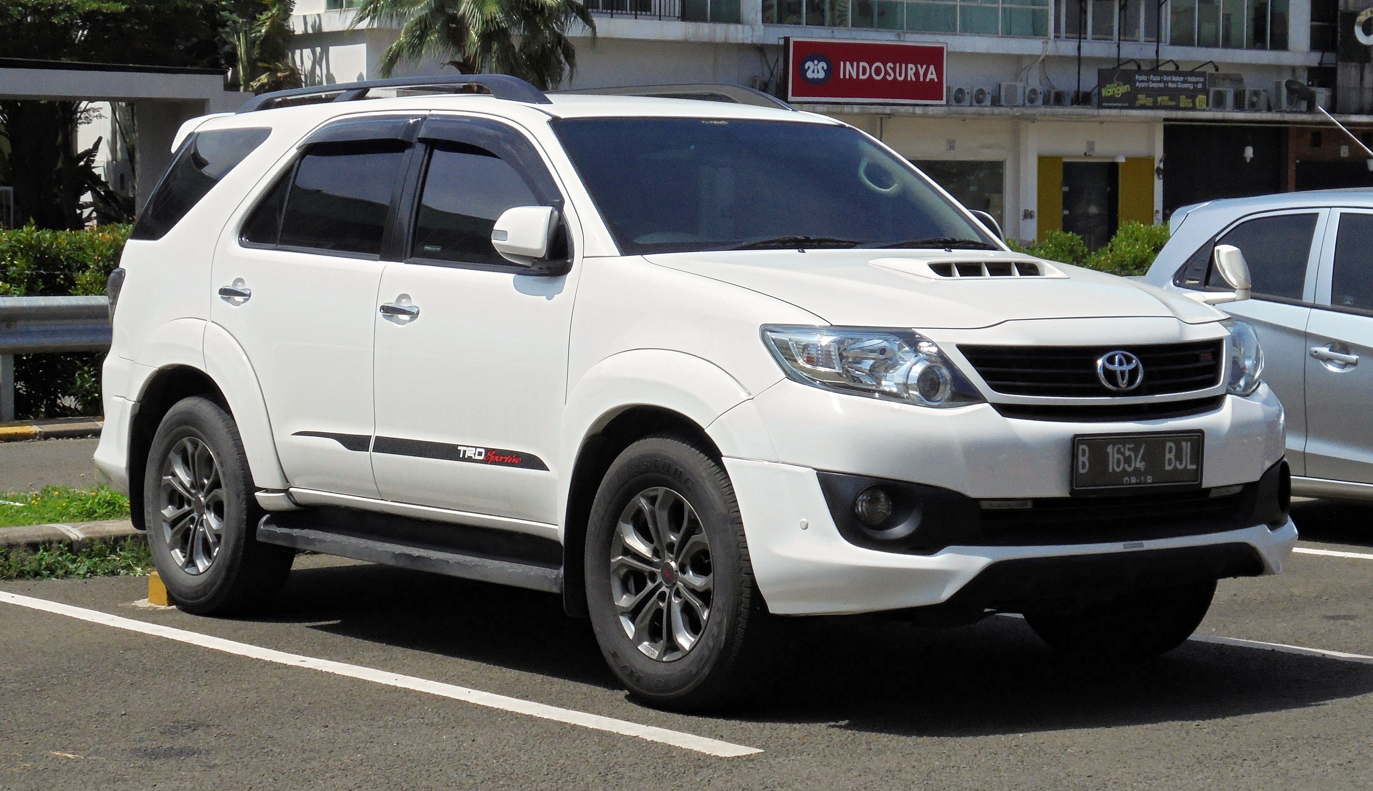 2014 Toyota Fortuner 2.5 G TRD Sportivo wagon (KUN60) photographed in South Tangerang, Banten, Indonesia.